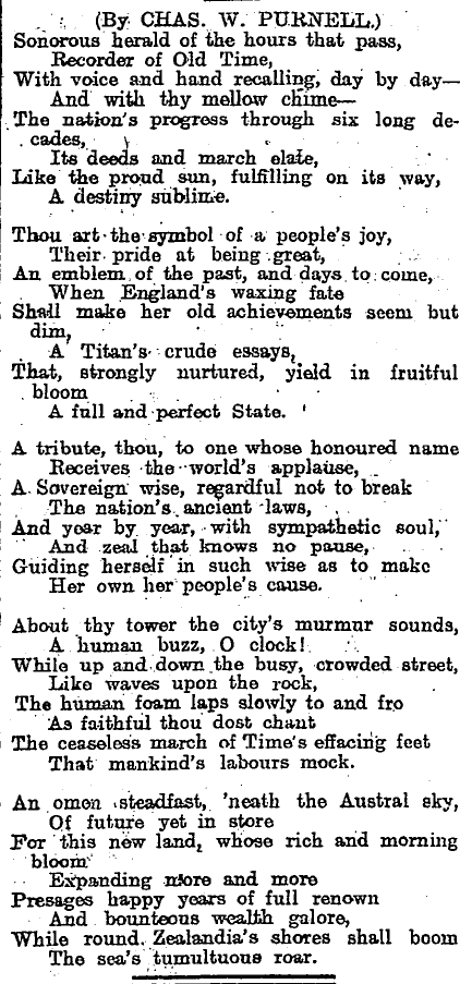 Poem by Charles W. Purnell about the Victoria Clock Tower, Christchurch.